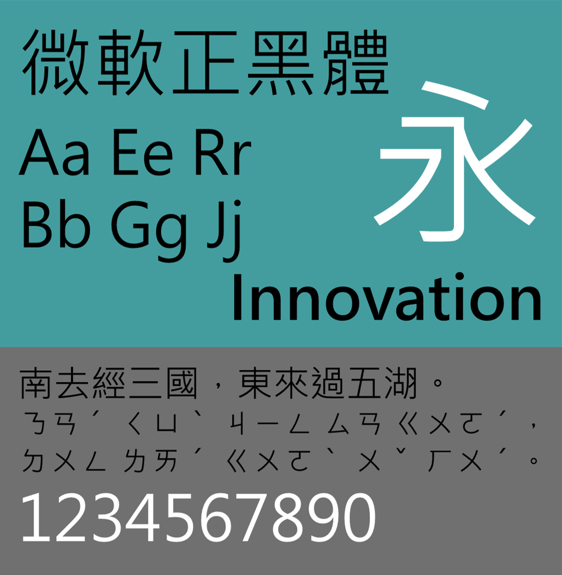 Sample of Microsoft JhengHei font, displayed is Microsoft JhengHei v6.14. Shown in picture are Latin alphabets “AaBbEeGgJjRr”, “Innovation”in bold, Traditional Chinese “南去經三國，東來過五湖。” with its bopomofo, and numerals 1-0.